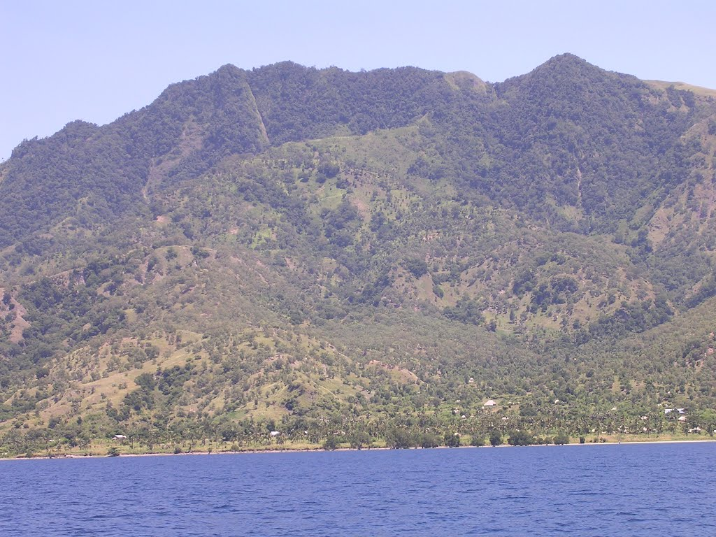 East Timor